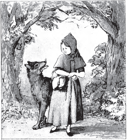 pg 8 of Little Red Riding Hood: an entirely new edition with new pictures by an eminent artist